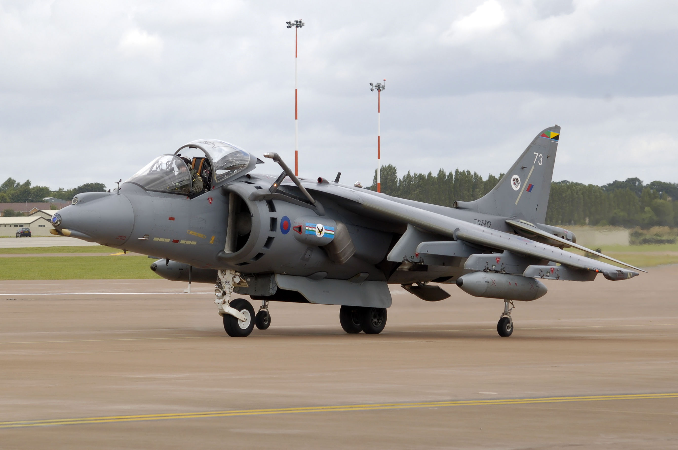 British Aerospace Harrier GR9 (code ZG502) in three quarter view at the Royal International Air Tattoo, Fairford, Gloucestershire, England. Taken at RIAT Fairford on the Thursday before the weekend show days. Later, both show days (Saturday and Sunday) were cancelled because of waterlogged car parks.